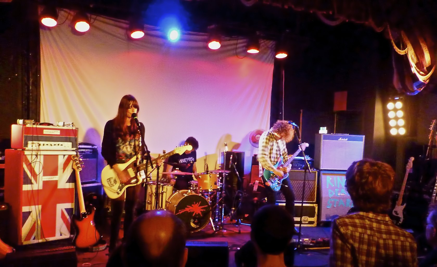 Shoegazing band Ringo Deathstarr live at The Globe, Cardiff.